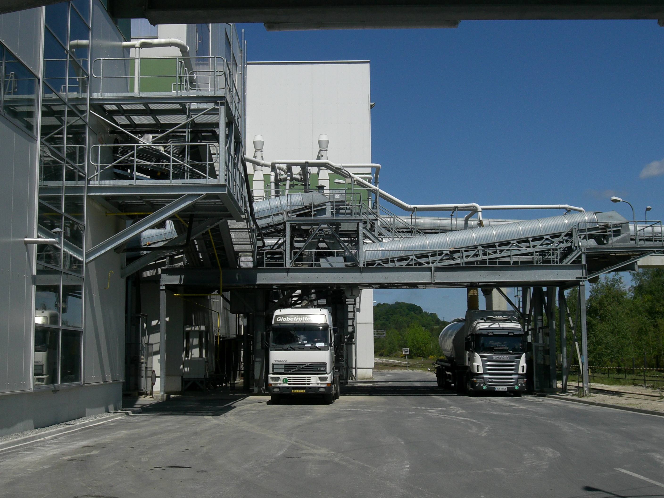 Sand processing mill near Provodín, Czech Republic. Loading ramp where wet sand is automatically loaded onto trucks. From left to right: Volvo FH12 truck and Scania R-series truck.